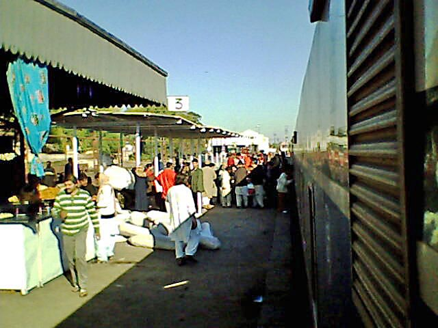 Train platform at Sahiwal Station